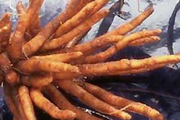 Safed Musli Tubers Chlorophytum borivilianum